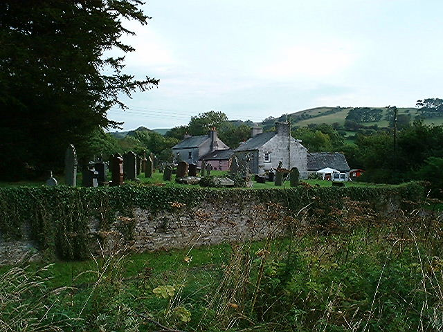 Llywel village.